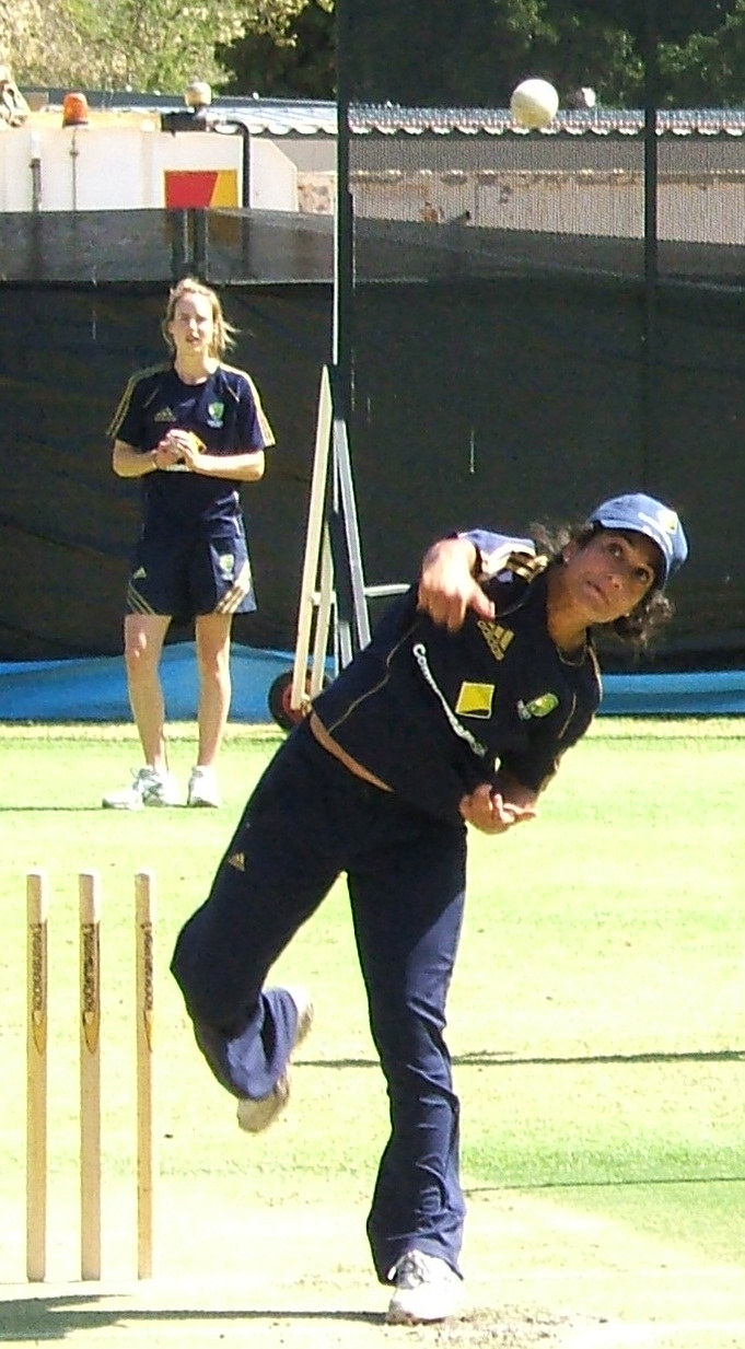 Named person engaging in named action at Adelaide Oval nets/training ground